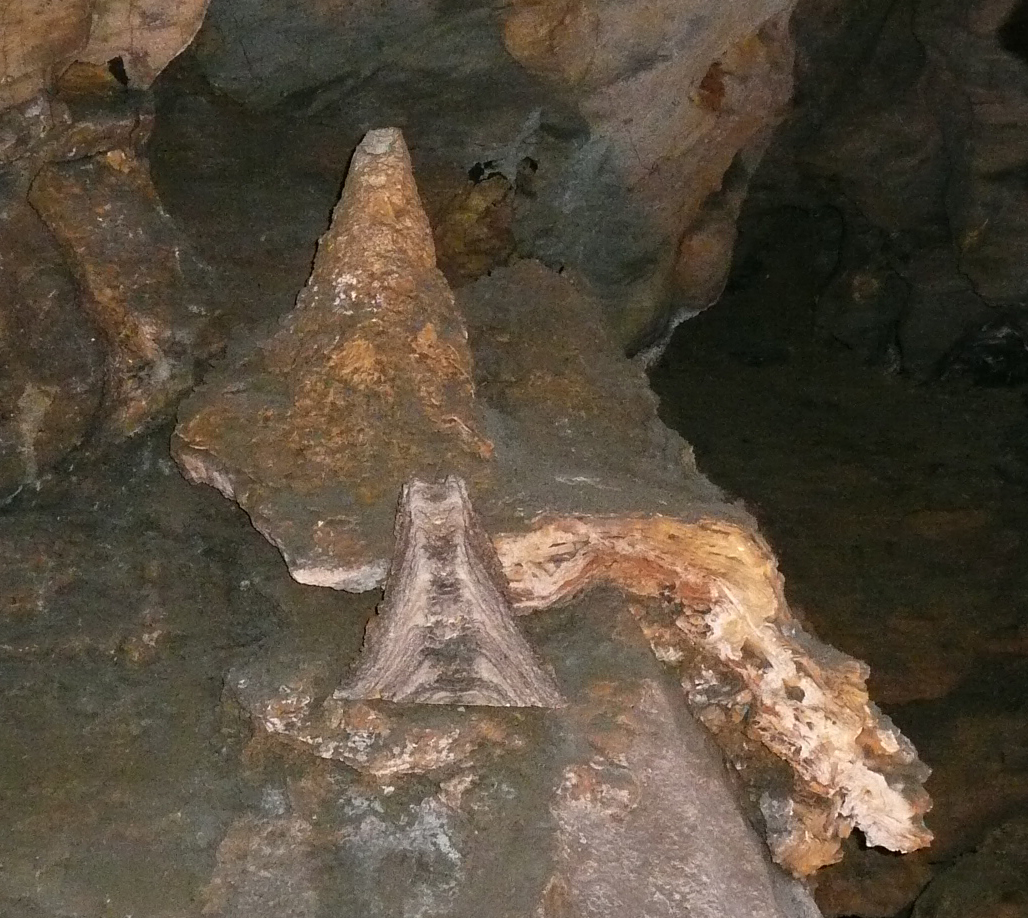 Aragonite Cave in Teplice nad Becvou, Moravia - stalagmite cut